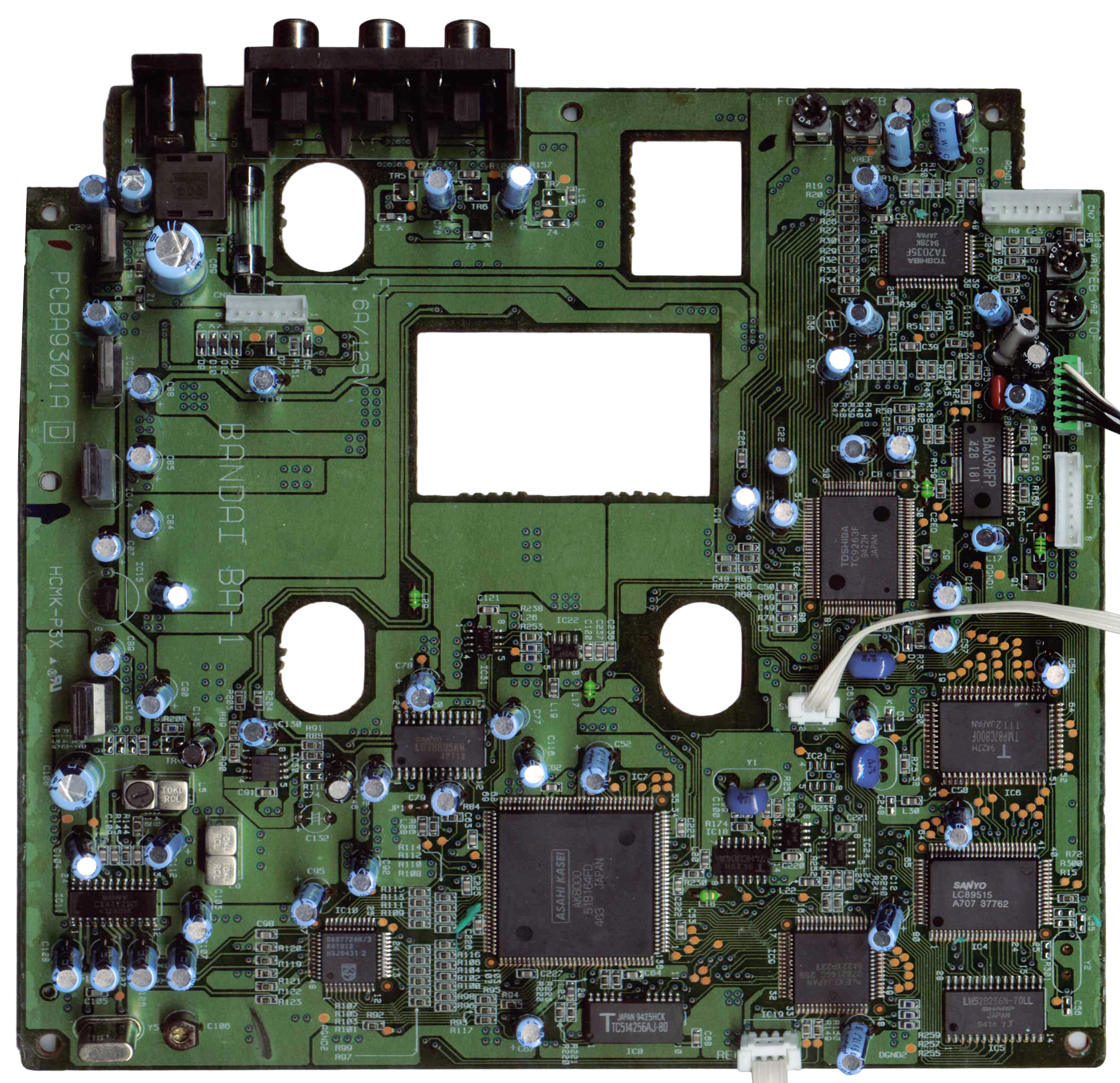 PCB scan from the Bandai Playdia